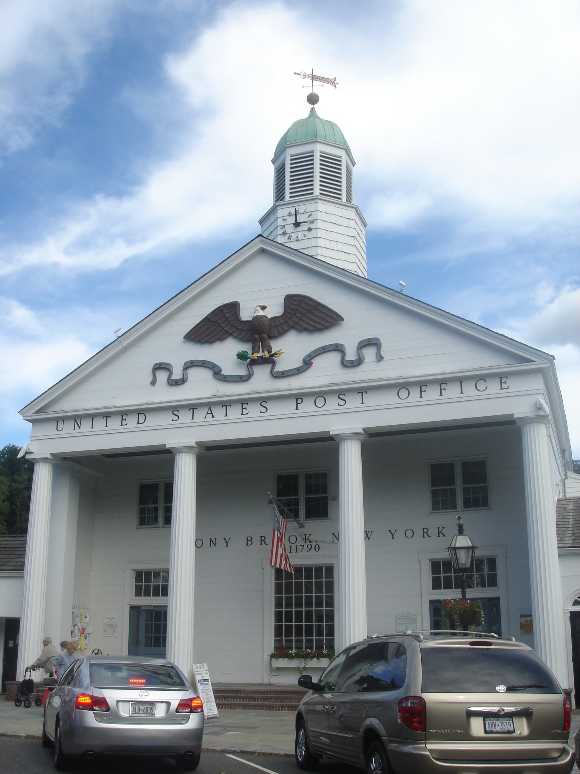 Postamt in Stony Brook, Long Island.